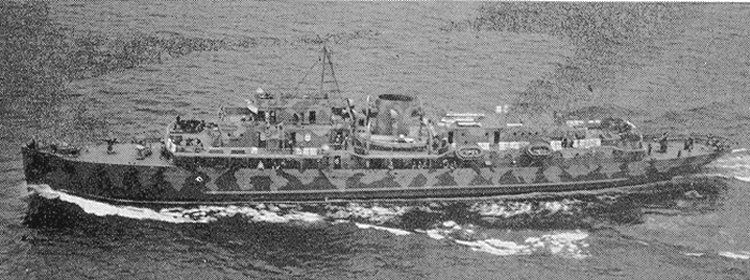 USS Jamestown (PG-55). Same ship as National Archives photo 19-N-70864. Built in 1928 as the steel-hulled yacht Savarona - renamed Alder 1929 - acquired by the Navy 6 December 1940 & converted to patrol gunboat, commissioned USS Jamestown (PG-55), 26 May 1941